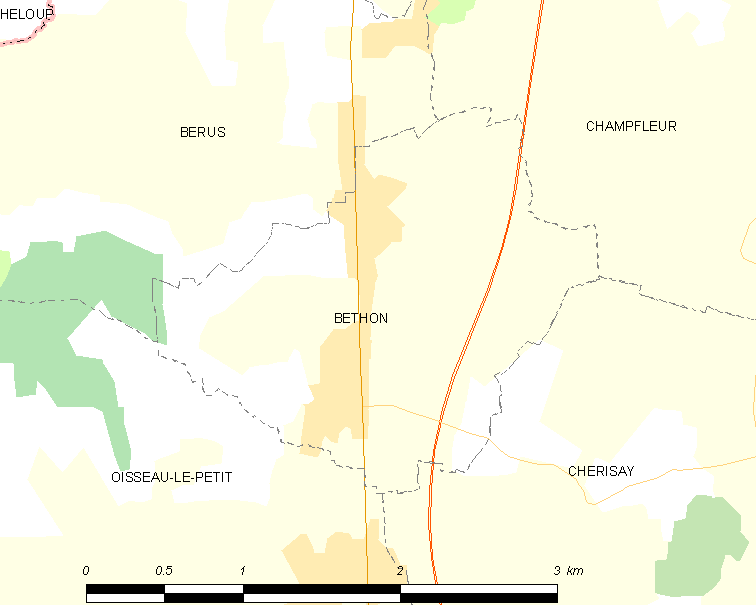 Map of French municipality